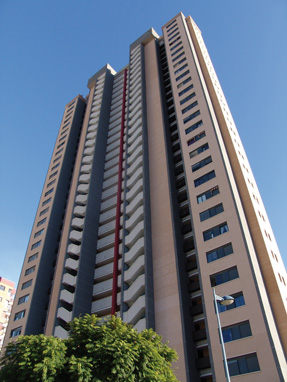 torre dos calas, benidorm